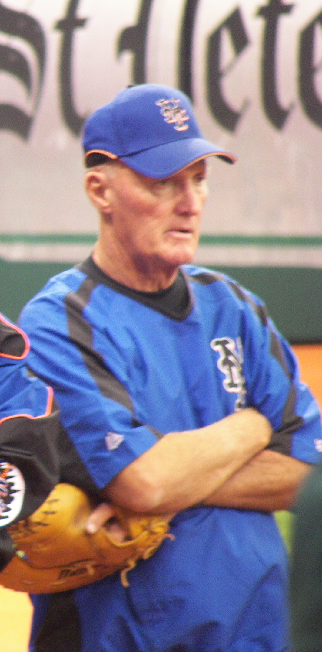 Mets bullpen coach Guy Conti before a Mets/Devil Rays spring training game at Tropicana Field in St. Petersburg, Florida.